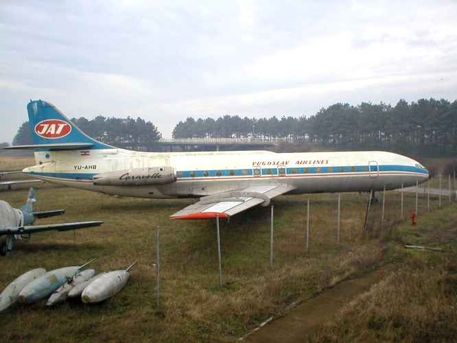 Old Caravelle in front of the Museum of Aviation in Belgrade